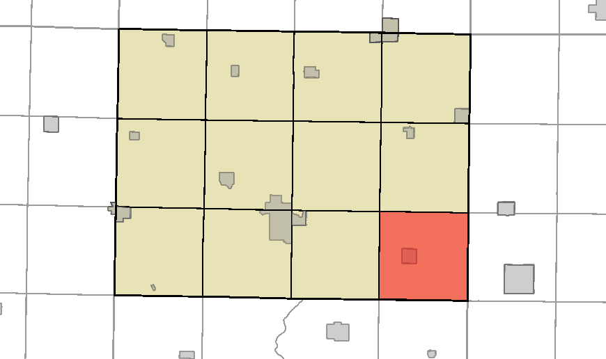 This is a map of Humboldt County, Iowa, USA which highlights the location of Norway Township.